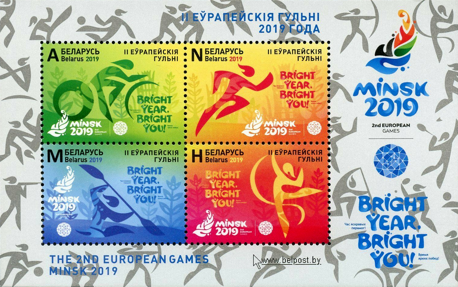 The 2nd European Games Minsk 2019